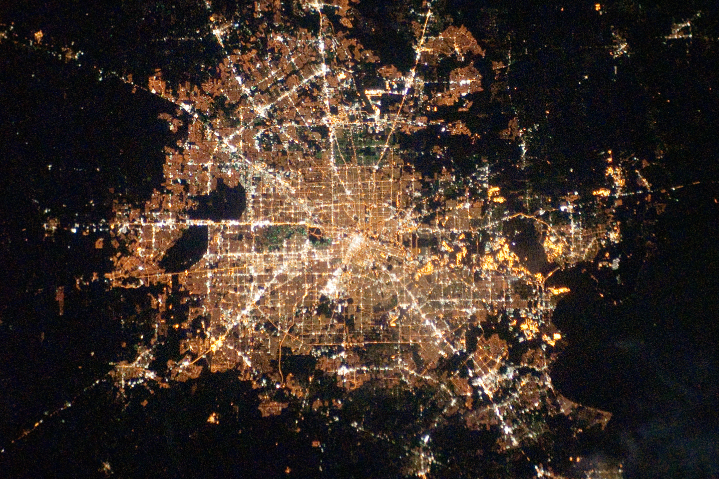 The image depicts the roughly 100-kilometer (60-mile) east-west extent of the Houston metropolitan area. Houston proper is at image center, indicated by a “bull’s-eye” of elliptical white- to orange-lighted beltways and brightly lit white freeways radiating outwards from the central downtown area. Suburban and primarily residential urban areas are indicated by both reddish-brown and gray-green lighted regions, which indicate a higher proportion of tree cover and lower light density. Astronaut photograph ISS022-E-78463 was acquired on February 28, 2010, with a Nikon D3 digital camera and is provided by the ISS Crew Earth Observations experiment and Image Science & Analysis Laboratory, Johnson Space Center. The image was taken by the Expedition 22 crew.